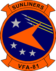 Insignia of the U.S. Navy Strike Fighter Squadron 81 (VFA-81) "Sunliners".